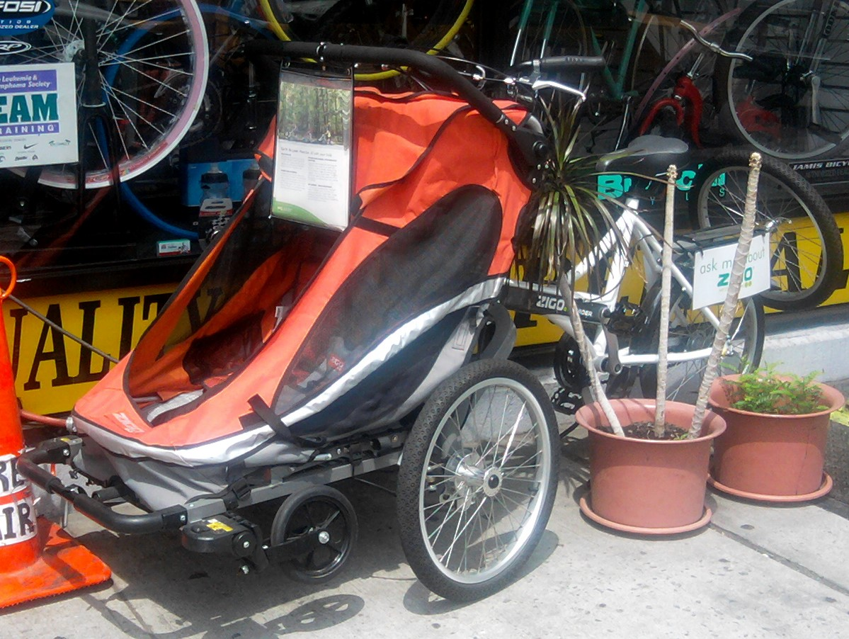 Looking north at Zigo child carrier on display at Al's on 10th Avenue on a partly sunny midday.